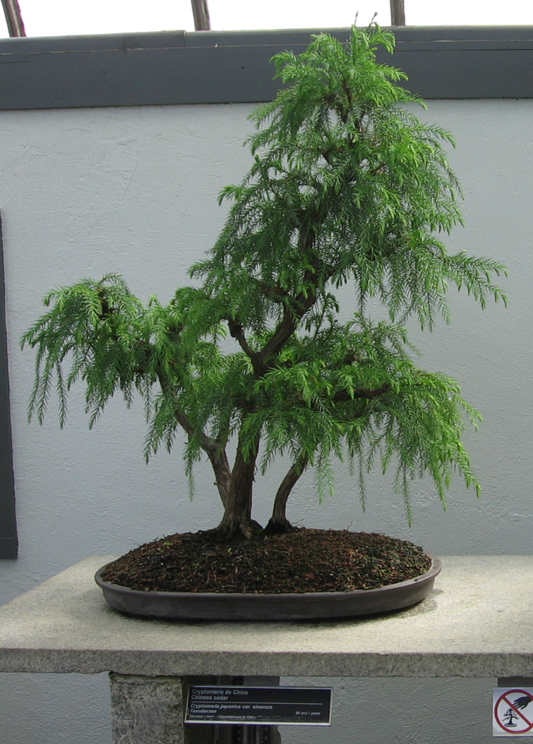 Cryptomeria japonica bonsai, Jardin botanique de Montréal